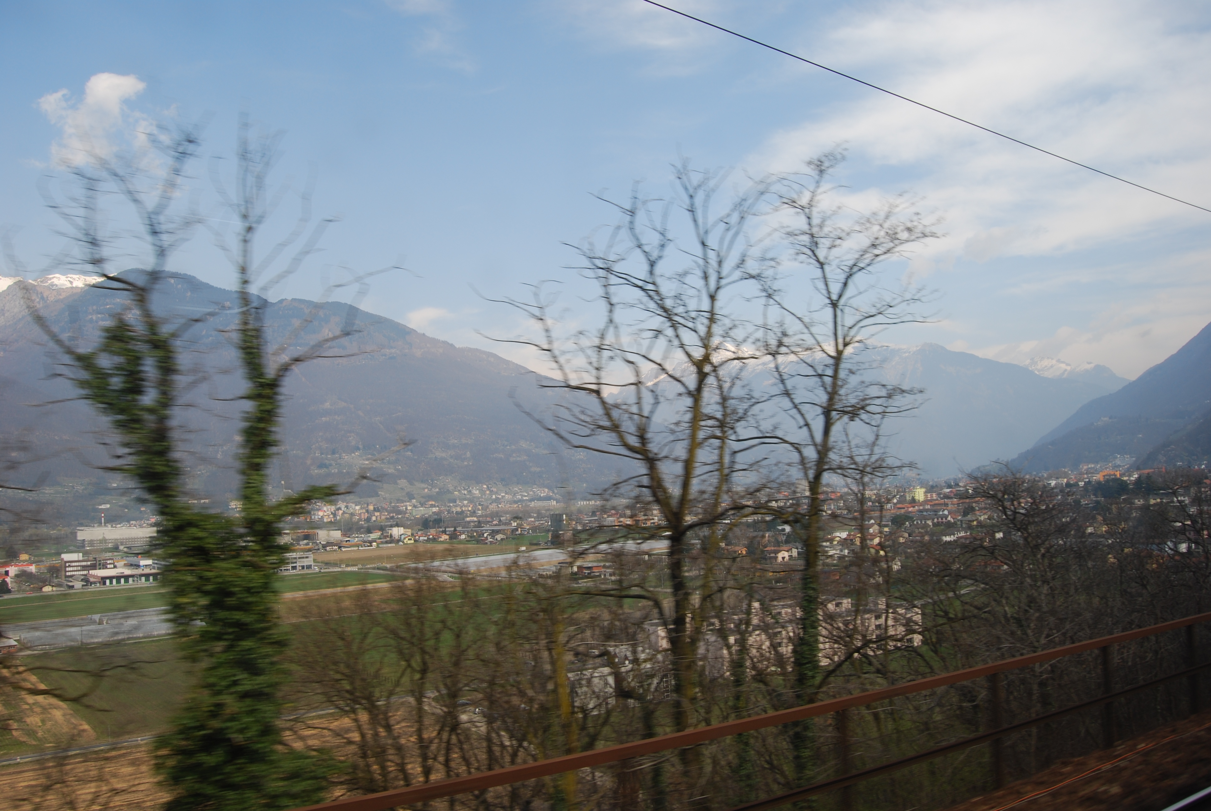 View from train over Monte Ceneri in direction of Giubiasco, canton of Ticino, Switzerland